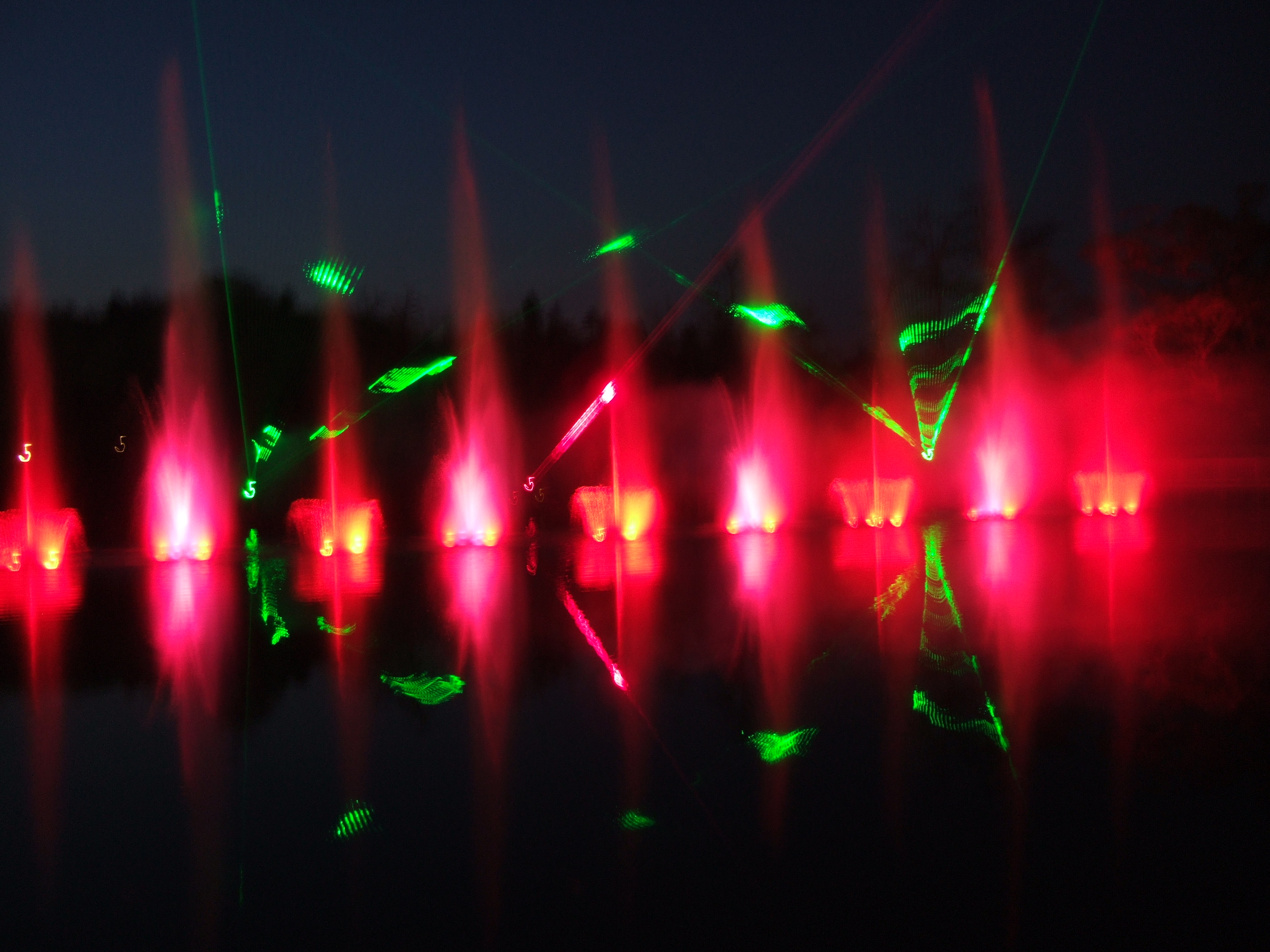 The After Dark Show 2007 at Legoland Windsor, Berkshire, UK